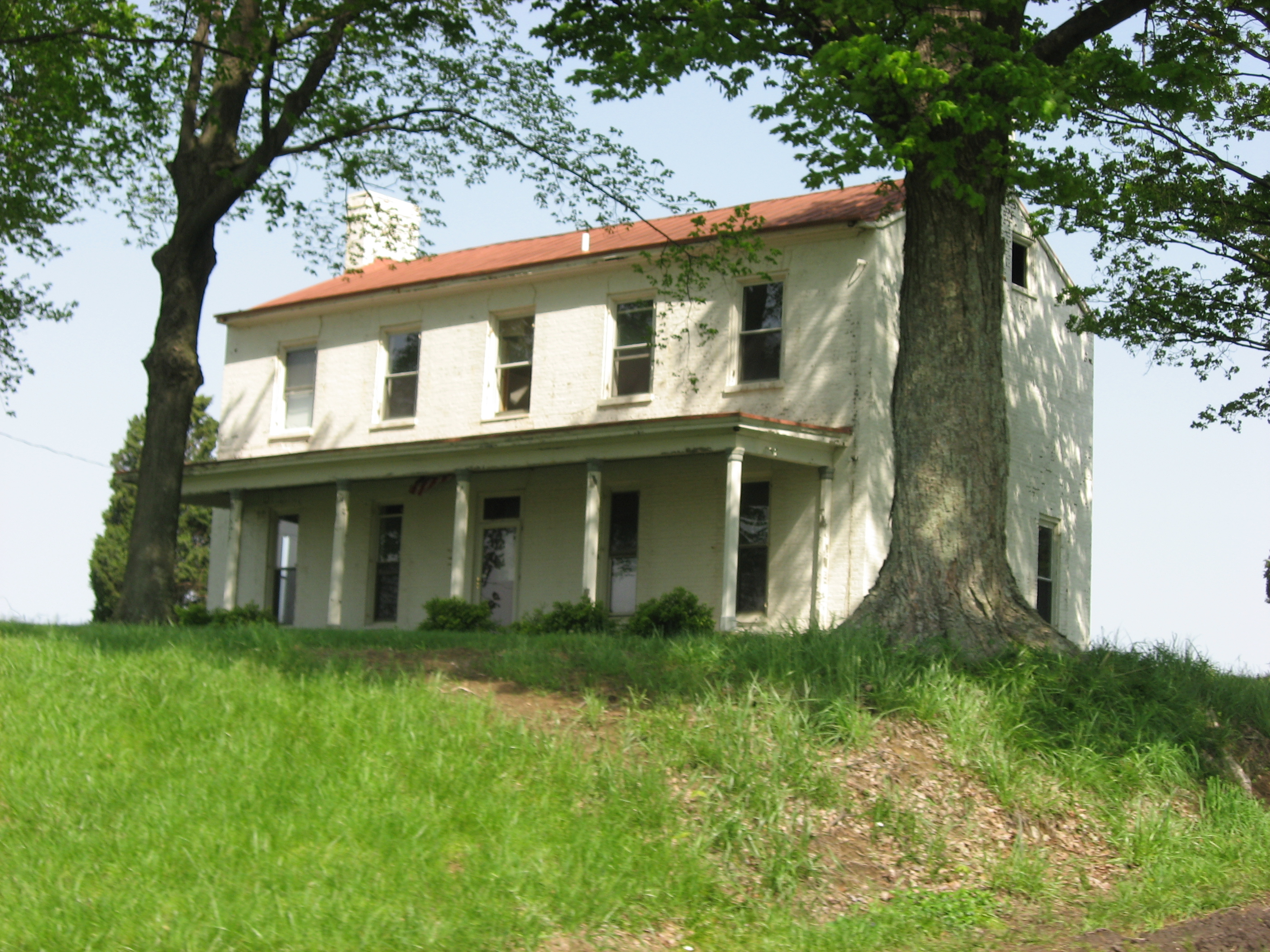 Front of the Rose Hill Farmstead, located on Meyer Road west of Wheatland in Palmyra Township, Knox County, Indiana, United States. Built in 1827, it and several related buildings were listed together on the National Register of Historic Places but were removed in 2012.